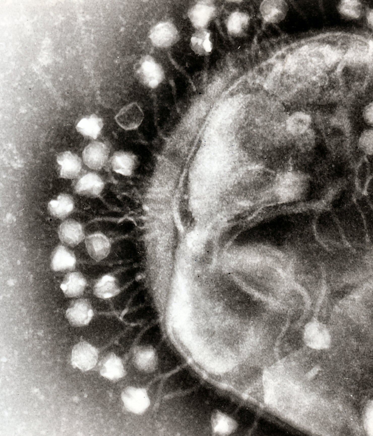 Transmission electron micrograph of multiple bacteriophages attached to a bacterial cell wall; the magnification is approximately 200,000.